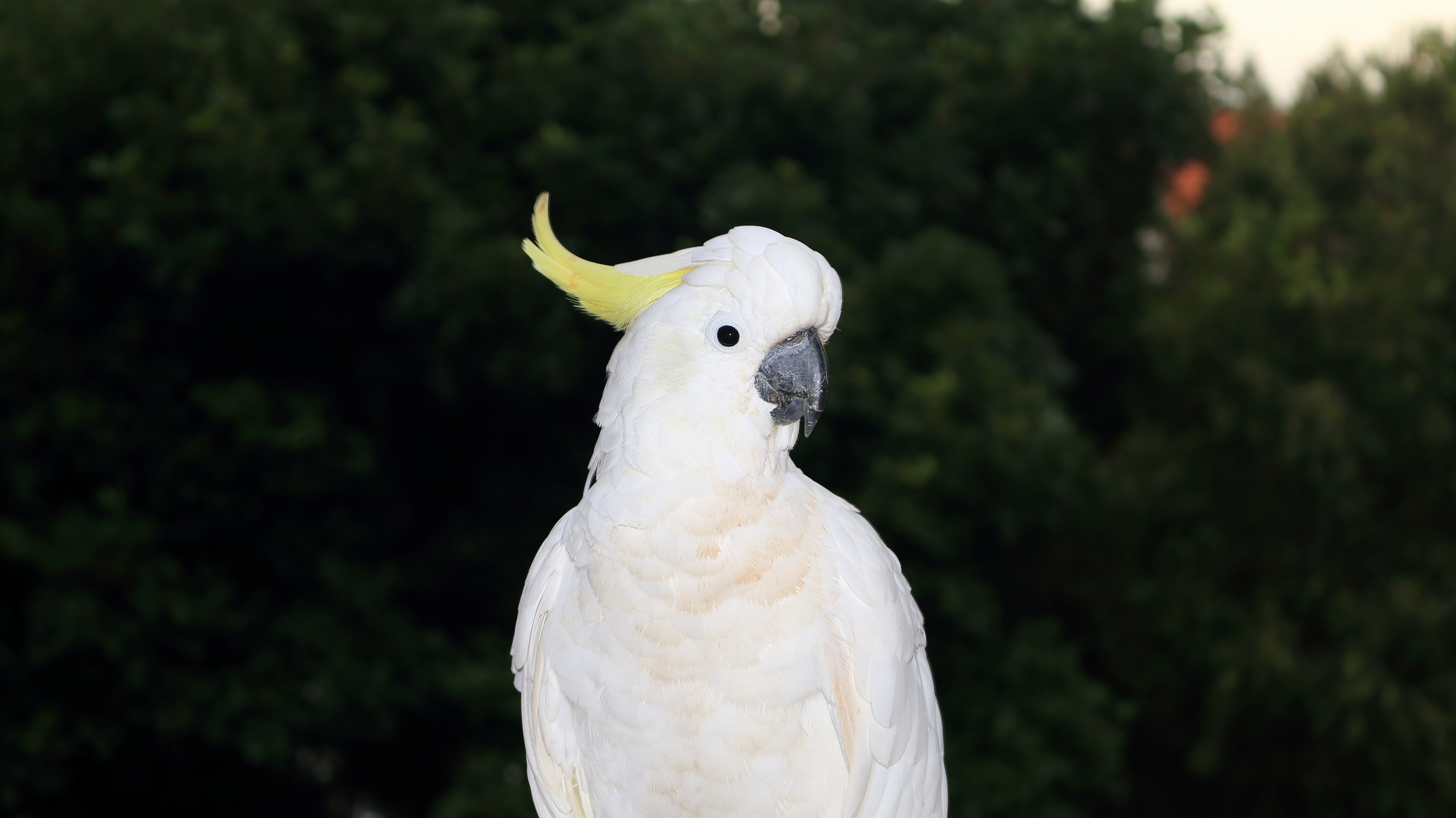 Sulphur-crested Cockatoo Cacatua galerita, Cronulla, NSW Australia. Wild Cockatoos perch on my balcony every day and scream for food.